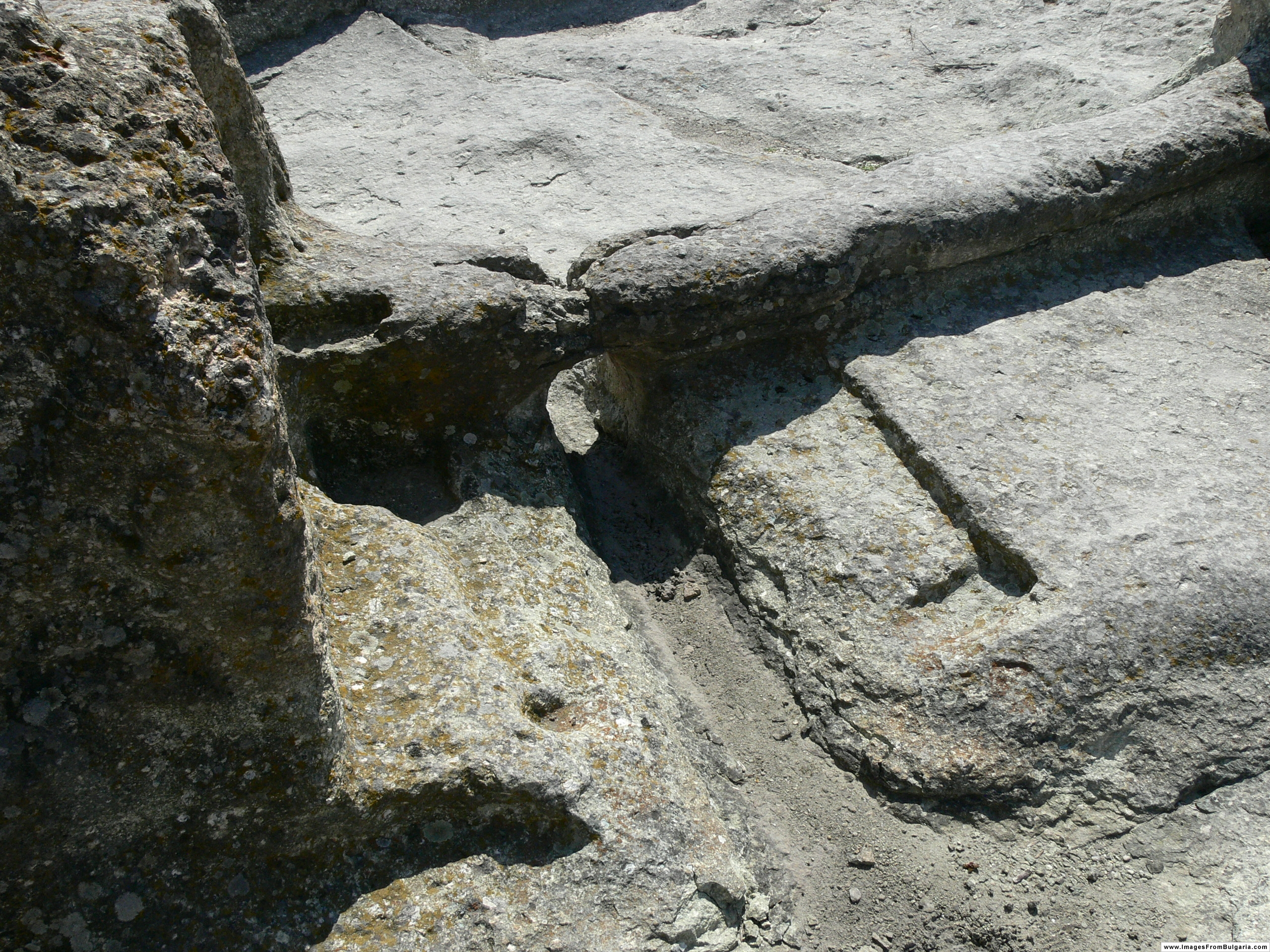 Perperikon — ancient Thracian town in the Rhodope Mountains